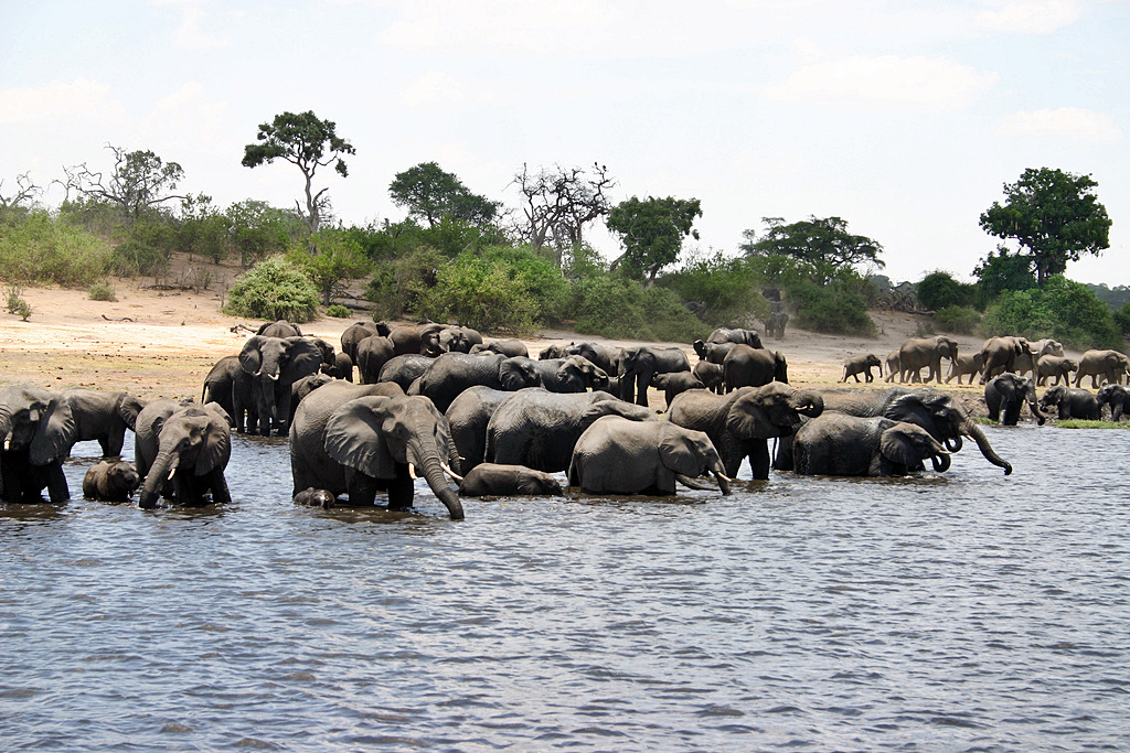 Elephants in Chobe National Park, Botswana